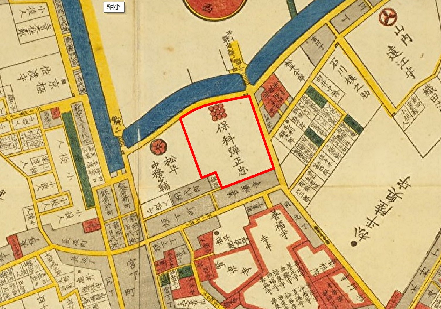 Residence of Hoshina clan at Edo